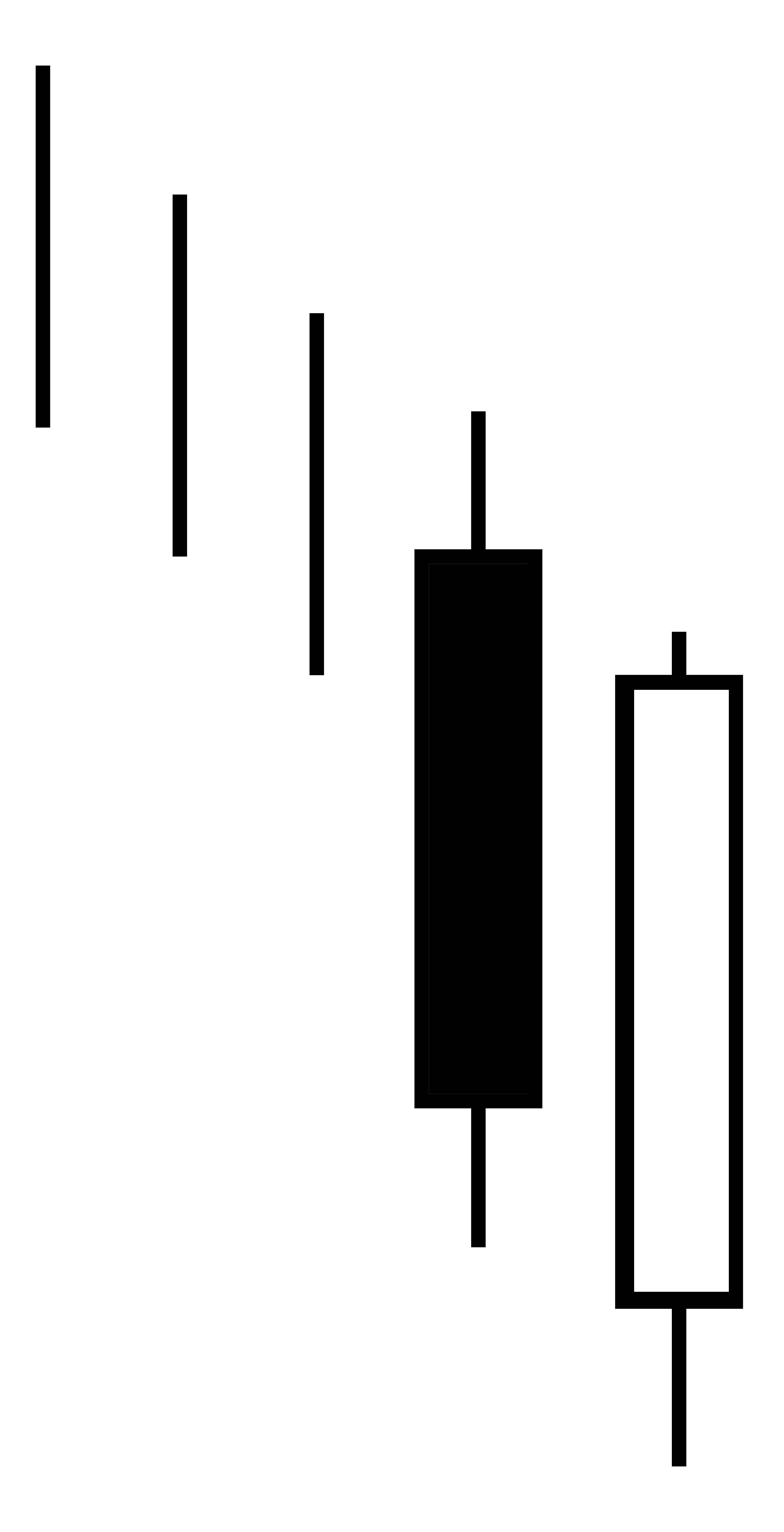 Bullish Penetrating Lines